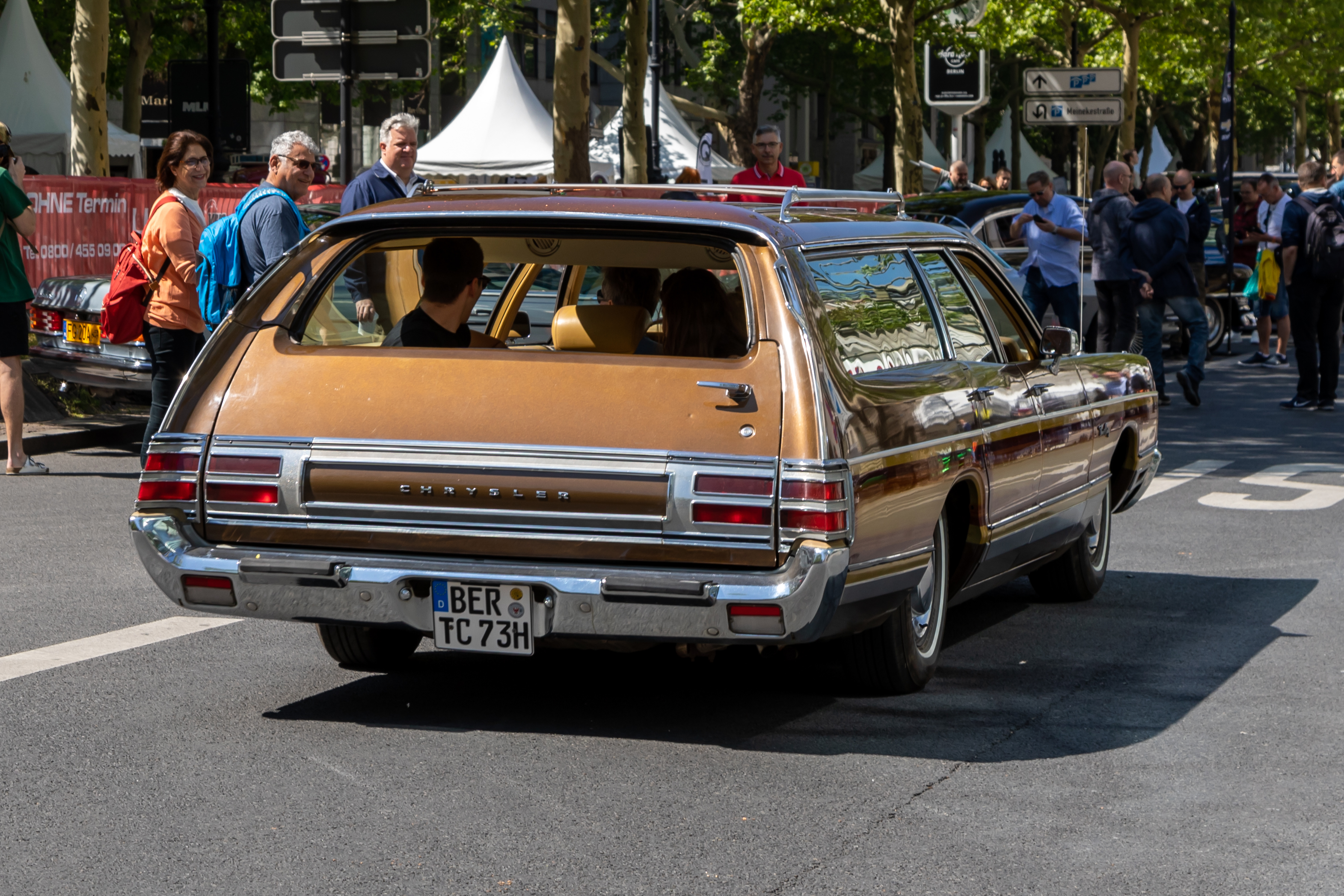 1973 Chrysler Town & Country at Classic Days Berlin 2019, Kurfürstendamm, Berlin-Charlottenburg